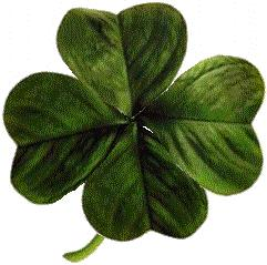 Clover (edited, 4th leaf)